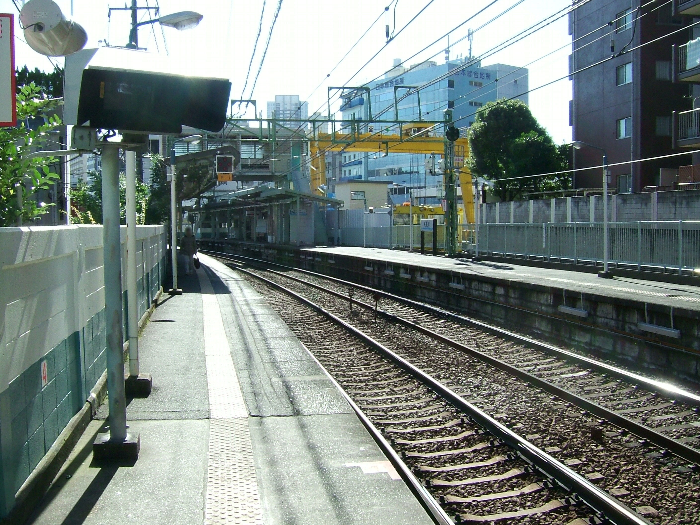 Kita-Shinagawa Station platform (Keihin Electric Express Railway Main Line)